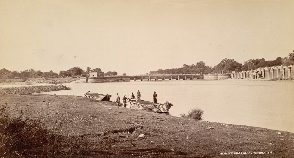 Photograph titled, "Head of Ganges Canal, Hardwar" taken by Samuel Bourne in 1860, but published in 1895, showing the headworks of the Ganges Canal in Haridwar, India.